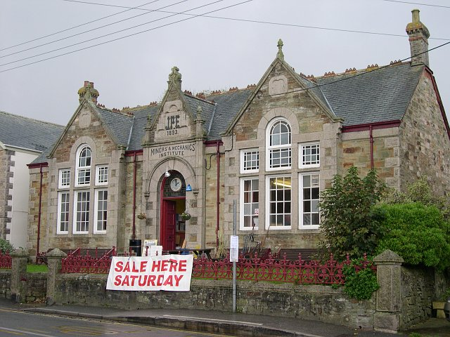 St Agnes Miners and Mechanics Institute. This building was erected in 1893 and financed, as many institutional buildings were in Cornwall at that time, by the philanthropist J. Passmore Edwards. It originally had a large reading room, a billiard room and a committee room. Today it is used as the equivalent of a "village hall" for St Agnes.